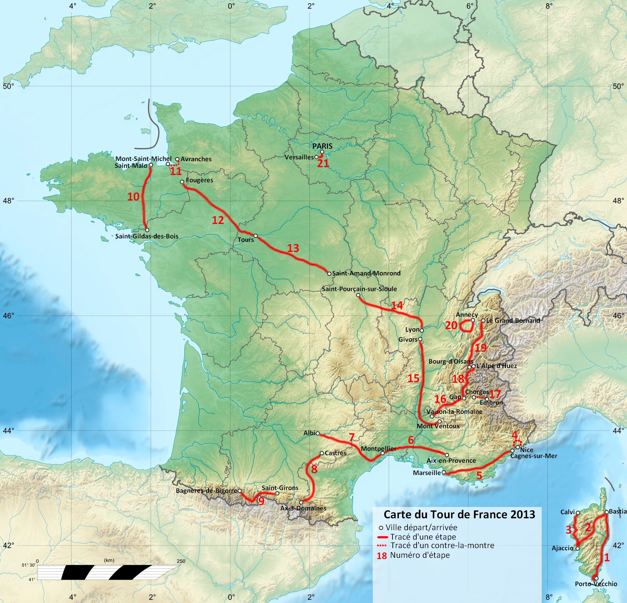 Blueprint of the Tour de France 2013